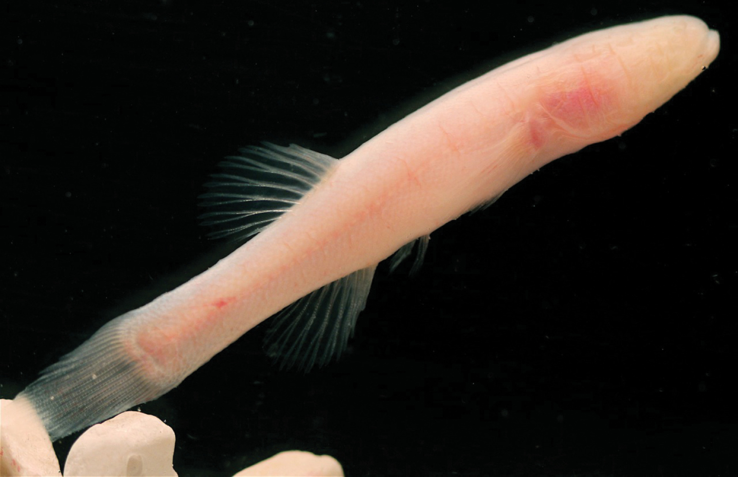 Photograph of a paratype of Amblyopsis hoosieri in life, YPM ICH 25304, 60.7 mm SL. Photograph by M.L. Niemiller.